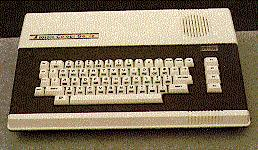 Colour Genie